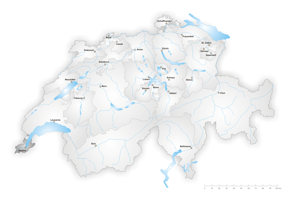 Summary